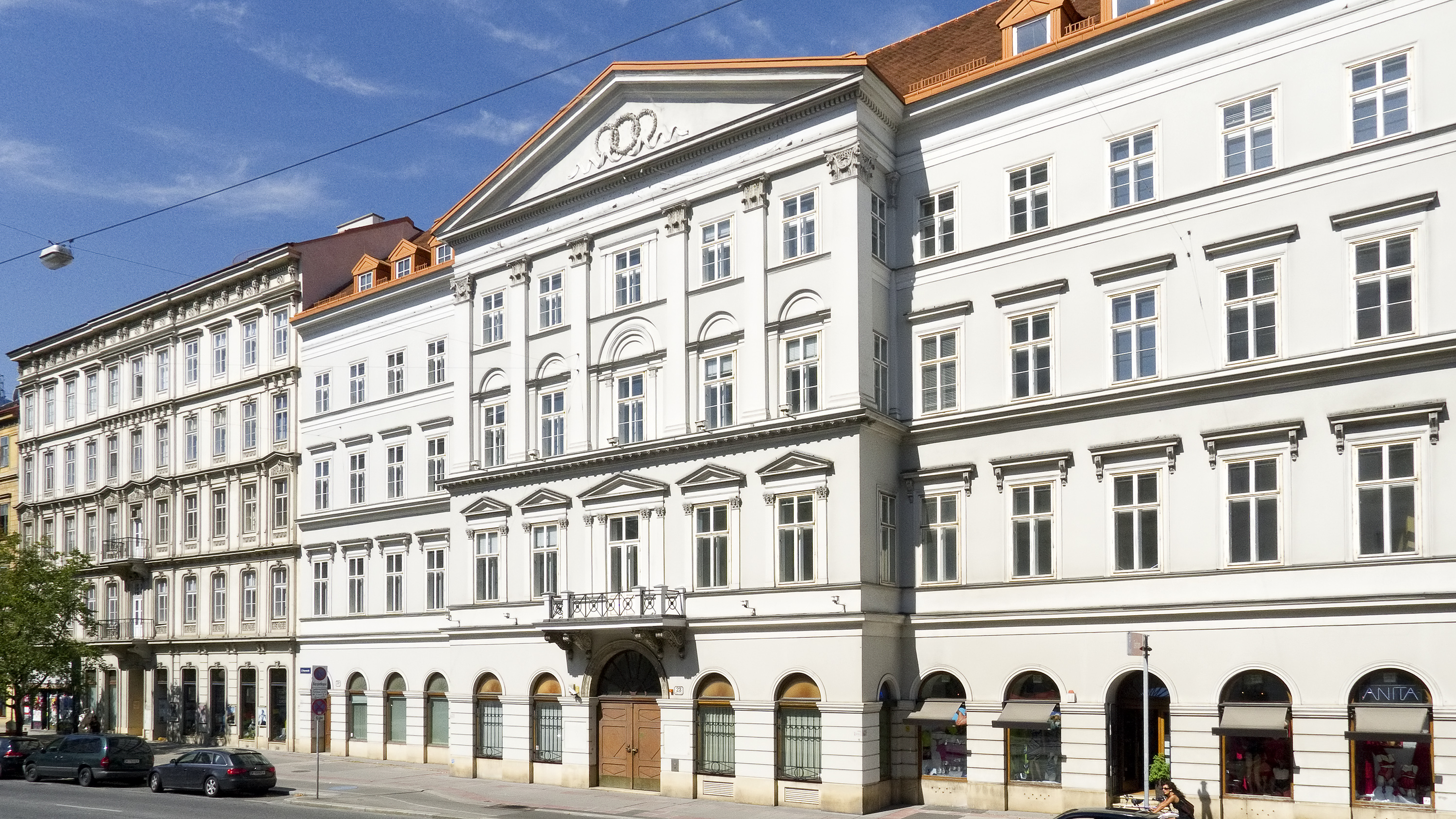 Residential Building Praterstraße 23, Vienna